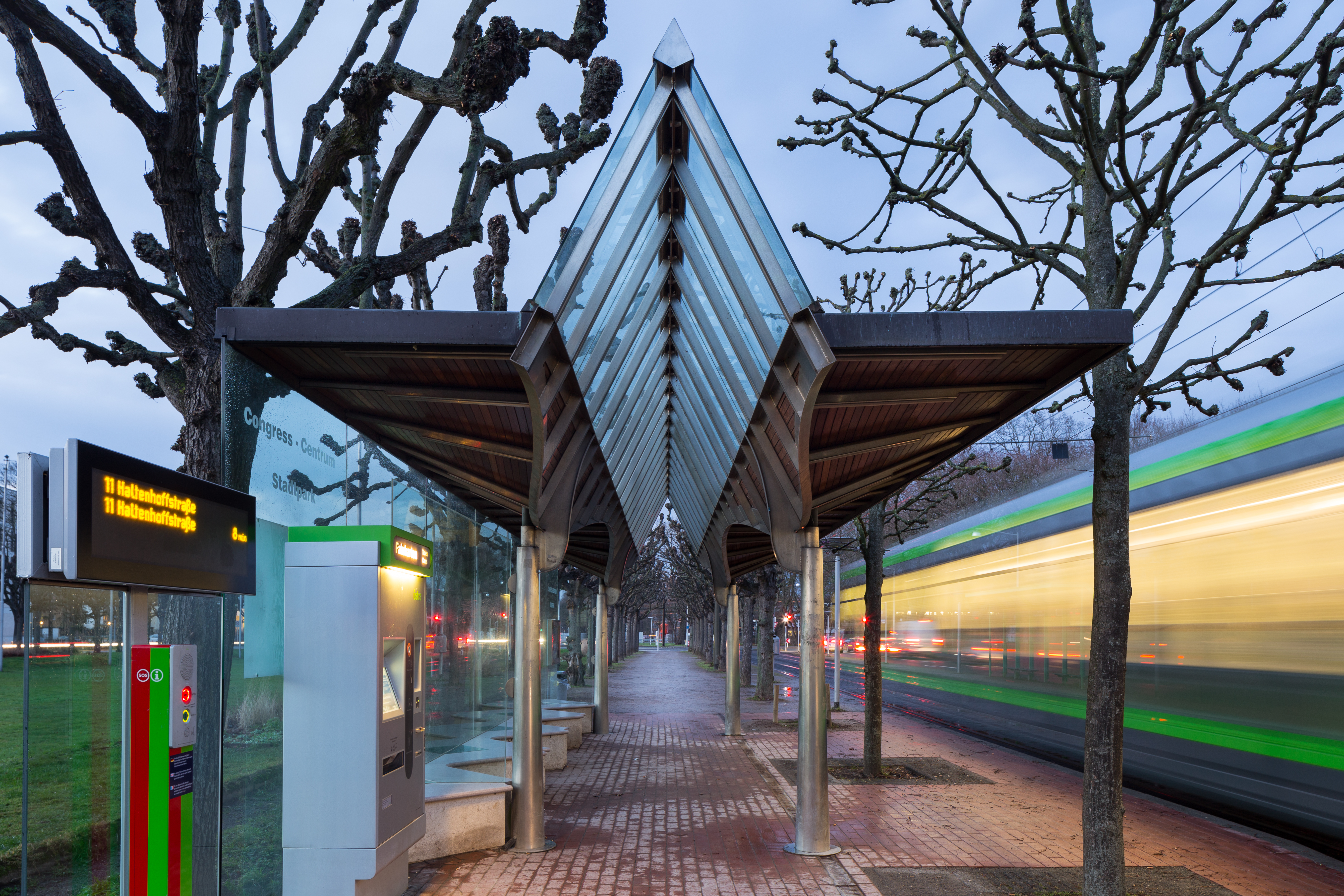 Tram station Hannover Congress Centrum, designed by Óscar Tusquets as part of the BUSSTOPS art project. The station is located at Theodor-Heuss-Platz square in Zoo quarter of Hannover, Germany.